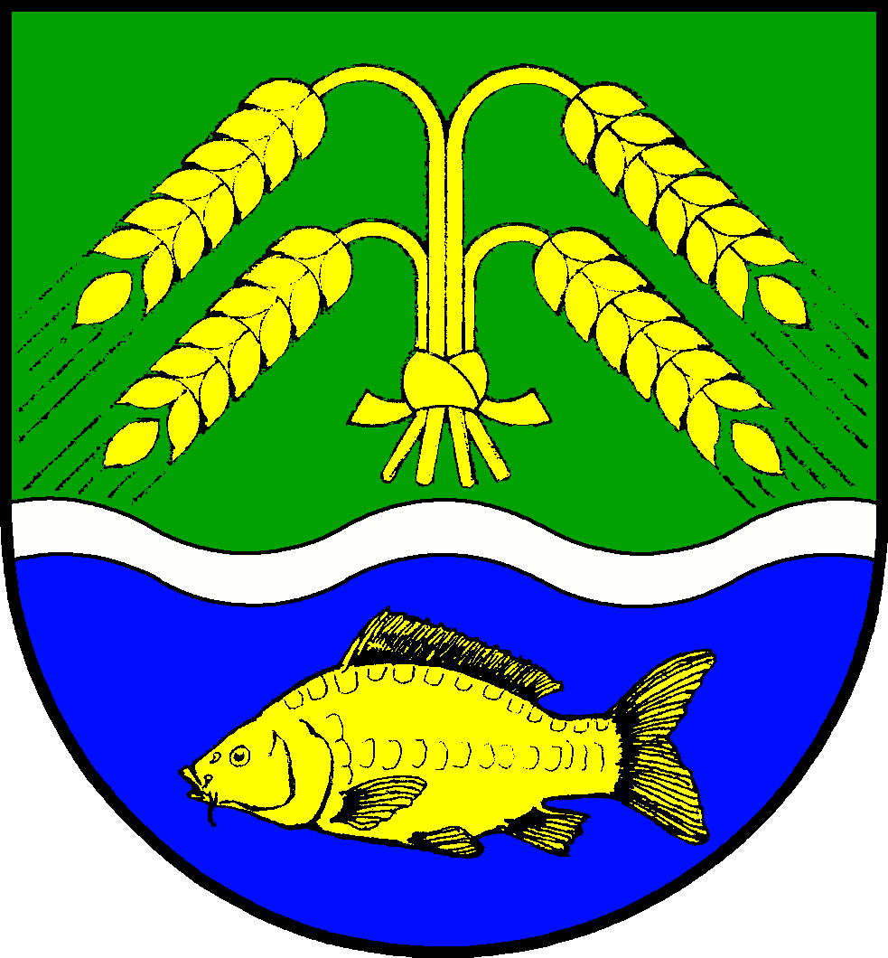 Coat of arms of the municipality Westerau in Schleswig-Holstein, Germany.